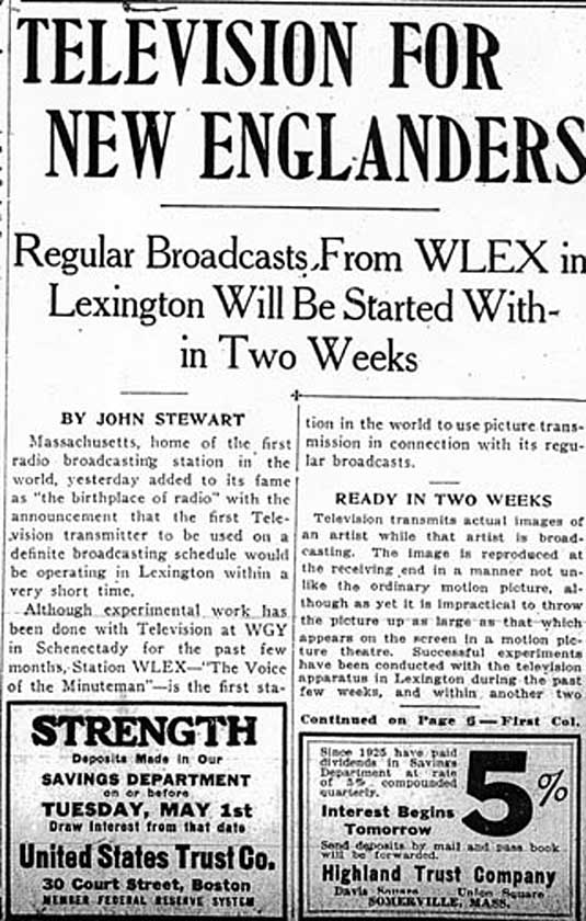 Announcement of the commencement of regular television broadcasting from WLEX, Lexington, Massachusetts, within two weeks.